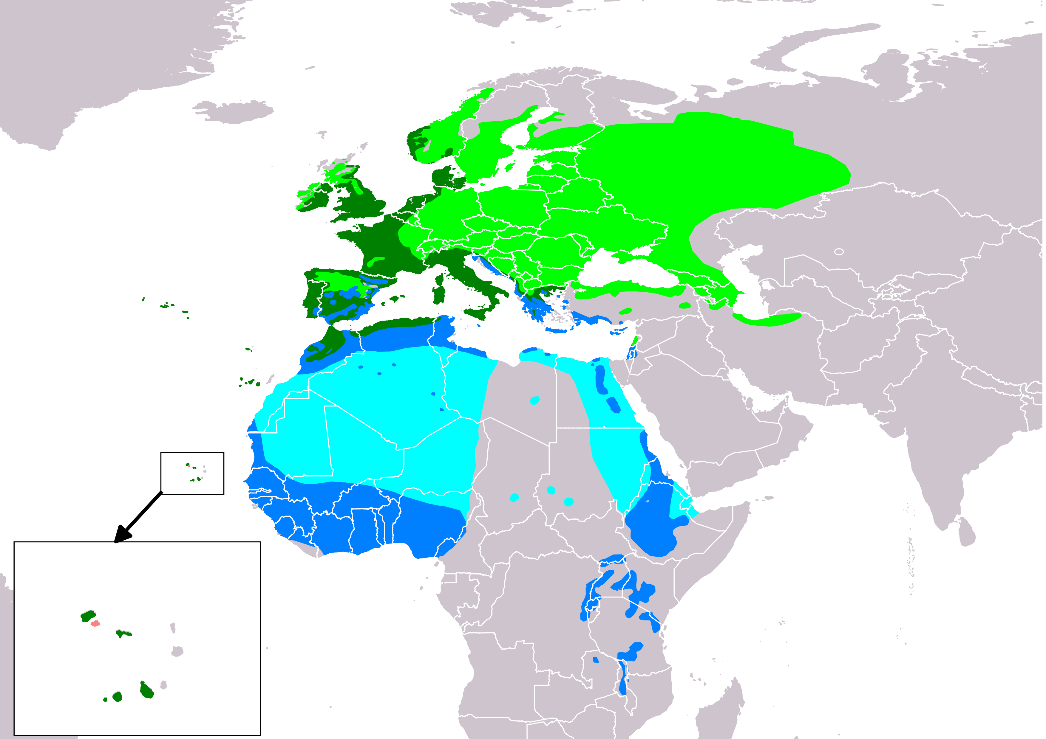 map of eurasian blackcap (Sylvia atricapilla) according to IUCN version 2018.2 Legend: Extant, breeding (#00ff00), Extant, resident (#008000), Extant, passage (#00ffff), Extant, non-breeding (#007fff), Probably extinct (#FF8080)